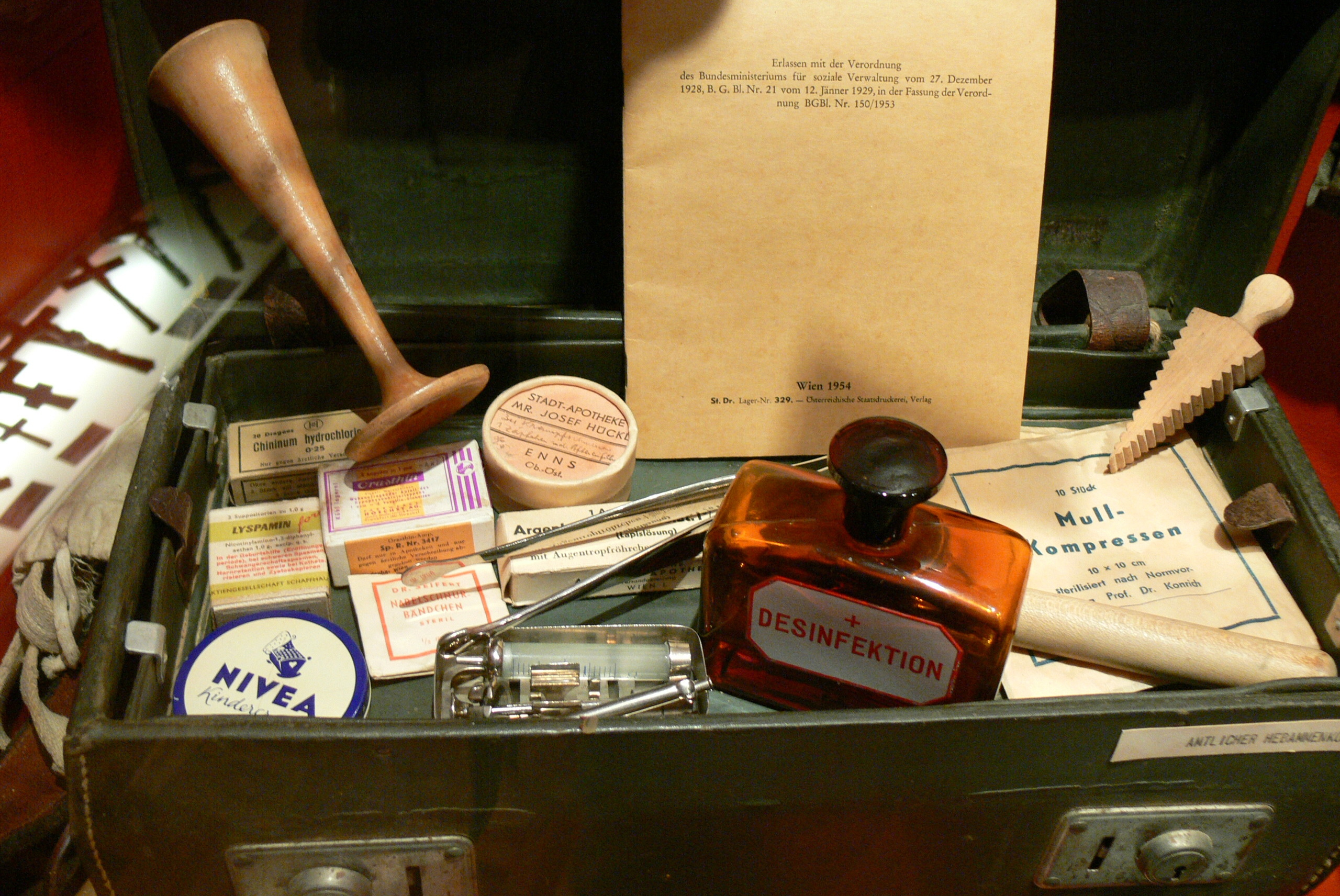 Enns ( Upper Austria ). Museum Lauriacum: Official equipment of a midwife ( 20th century ).